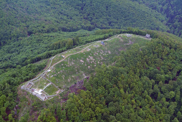 Pustý hrad, Slovakia, castle, aerial photography